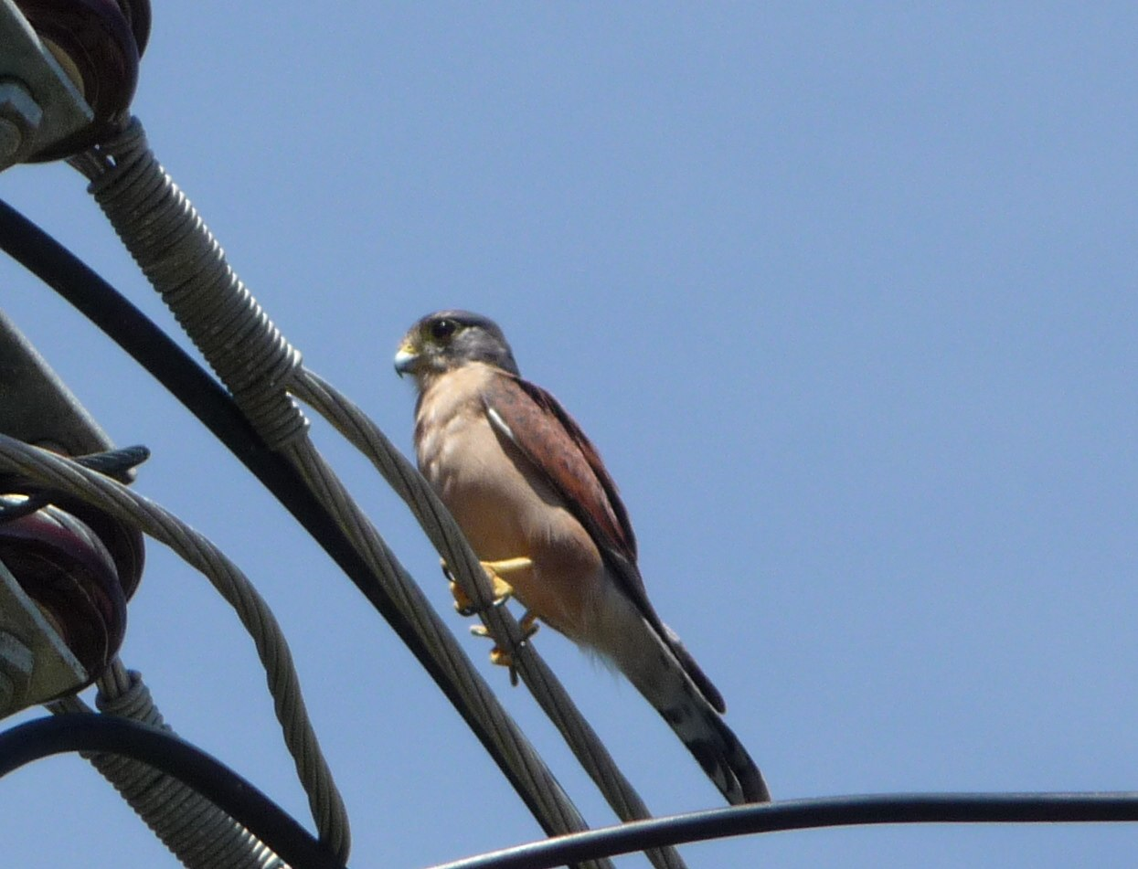 The Seychelles Kestrel - a tiny falcon! It may be the smallest falcon in the world being only 18-23 cm (7-9 in), whereas the American Kestrel is the second smallest at 9-12 inches. ( Picture taken by Nicholas Martens on 6/27/09 in the Seychelles. Part of a "Birds of Seychelles" Set